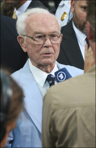 Walter Walsh attends the 100th anniversary celebration of the Federal Bureau of Investigation